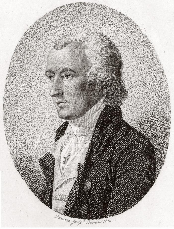 Carl Ludwig Willdenow, German systematic botanist.